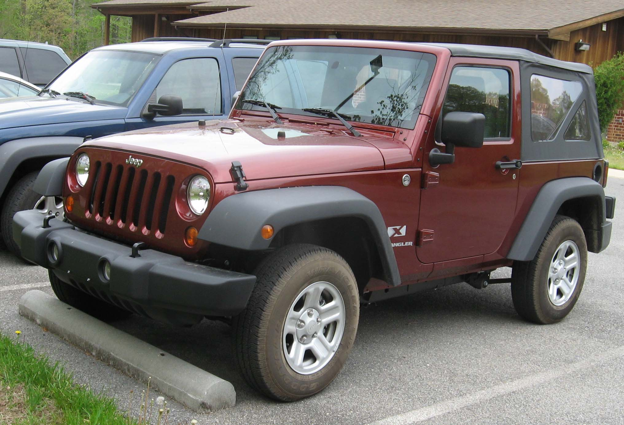 2007 Jeep Wrangler photographed in USA.